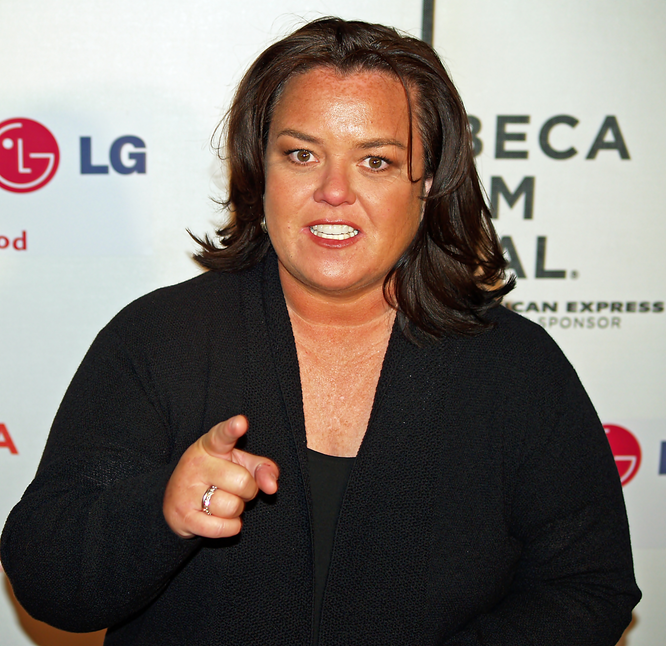 Rosie O'Donnell at the premiere of I Am Because We Are at the 2008 Tribeca Film Festival